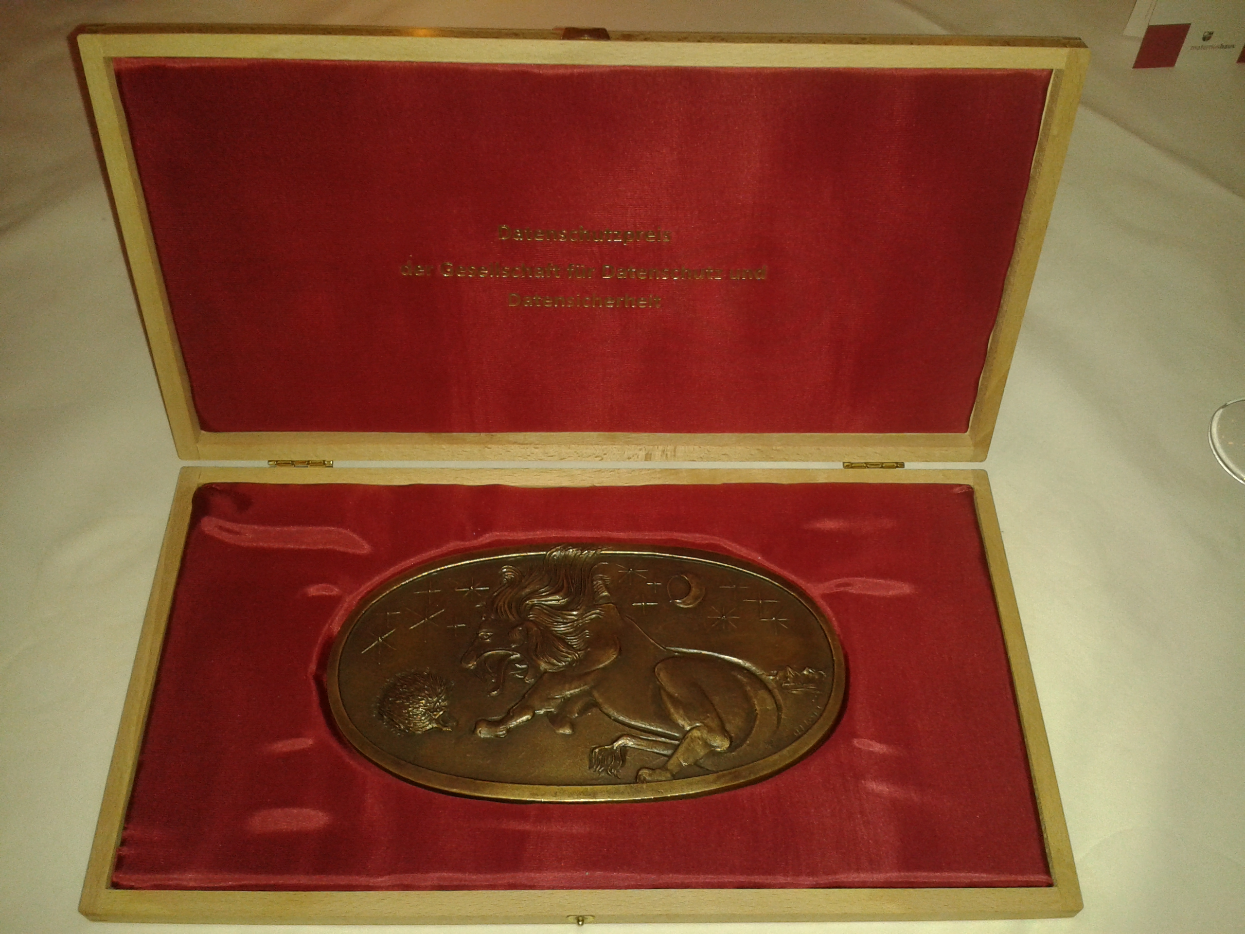 Medal for the Data Protection Award of the Society for privacy and data security, first awarded 2013, by Heribert Calleen, Cologne/Germany